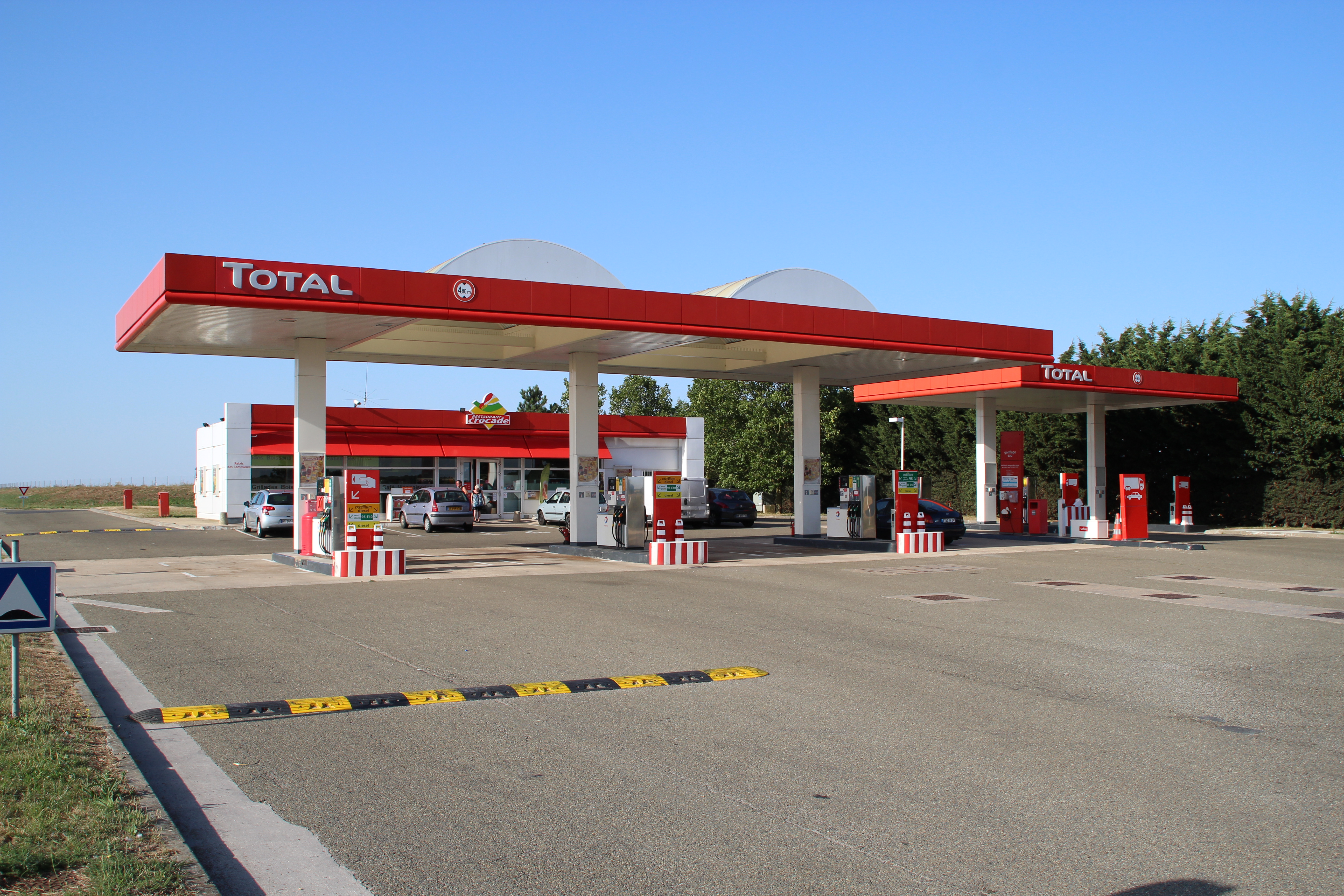 Relais de Prunay is a Total petrol station on the road nationale 10 at Hameau de l'Abbé in Prunay-en-Yvelines, France.